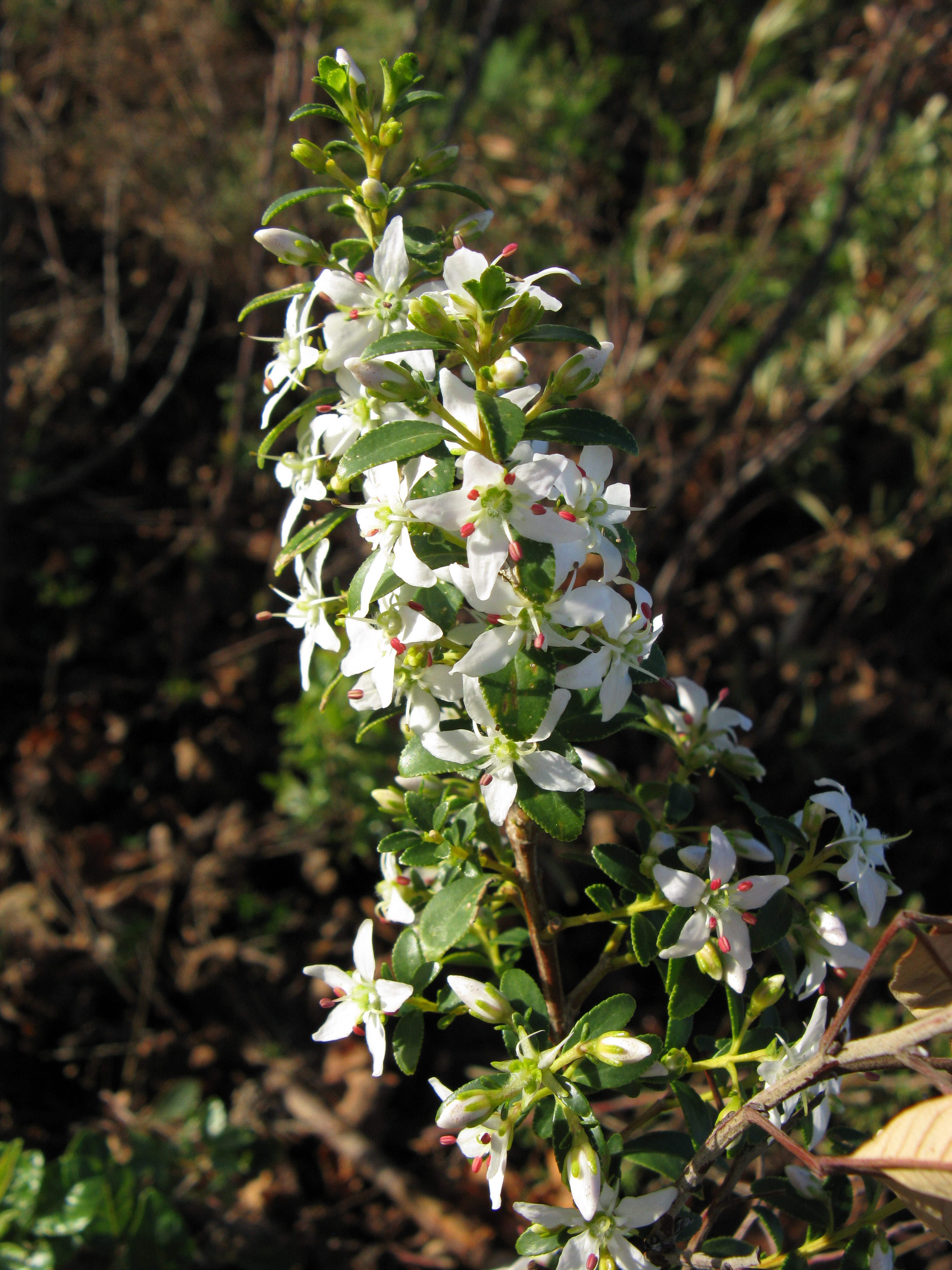 Oval leaf Buchu (Afrikaans boegoe). Taken in typical fynbos on the slopes of Helderberg